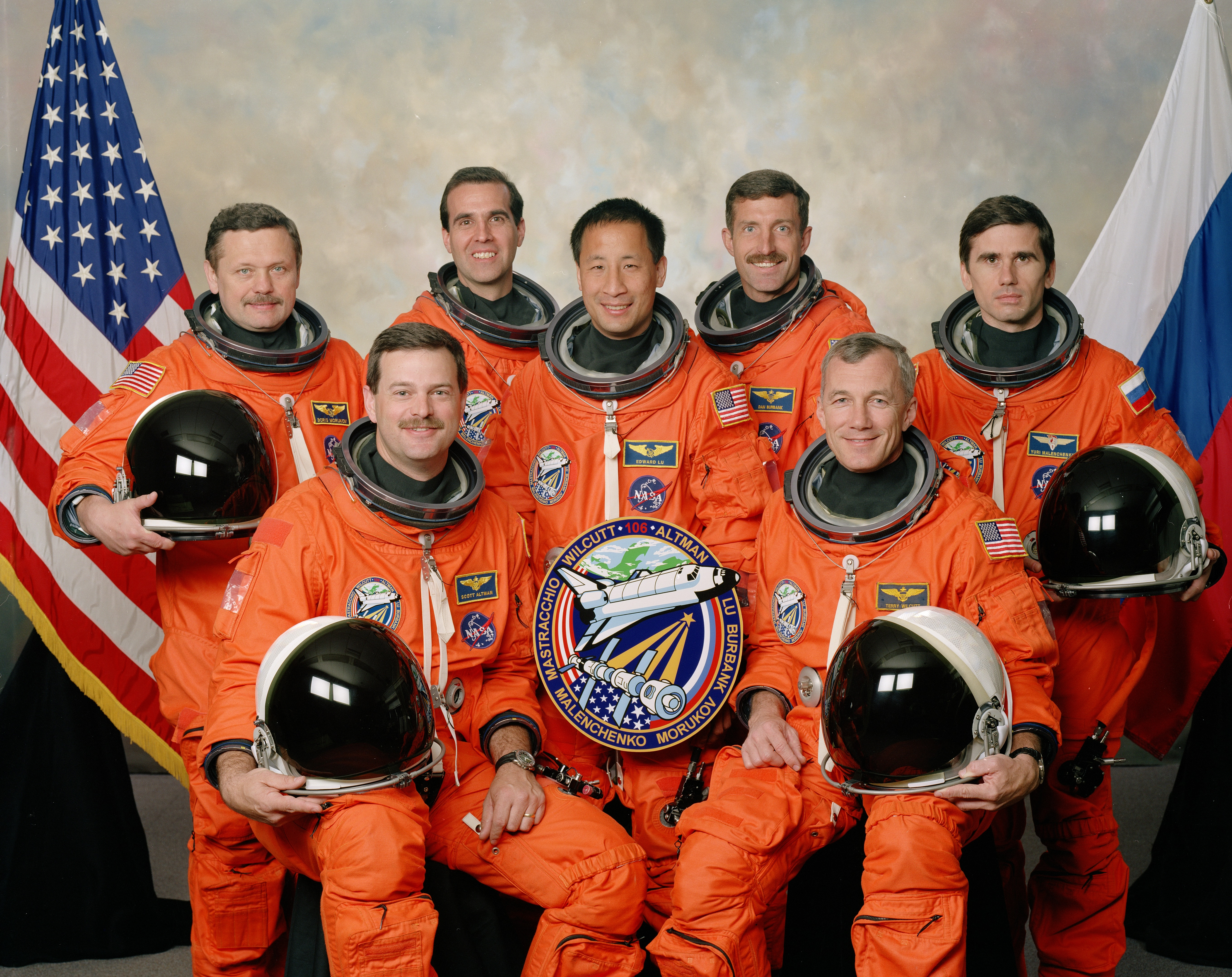 STS106-S-0002 (June 2000): Five NASA astronauts and two cosmonauts representing the Russian Aviation and Space Agency take a break in training from their scheduled September 2000 visit to the International Space Station. Astronauts Terrence W. Wilcutt (right front) and Scott D. Altman (left front) are mission commander and pilot, respectively, for the mission. On the back row are the mission specialists. They are (from left) cosmonaut Boris V. Morukov, along with astronauts Richard A. Mastracchio, Edward T. Lu and Daniel C. Burbank and cosmonaut Yuri I. Malenchenko. Morukov and Malenchenko represent the Russian Aviation and Space Agency.